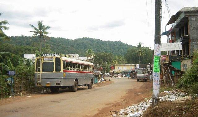 Madathara.